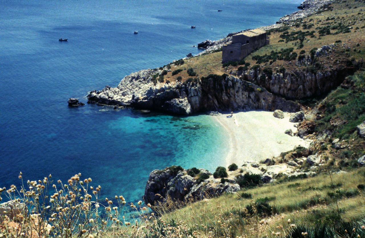 wildlife sanctuary "Zingaro", prov. Trapani, reg. Sicily, Italy: Tonnara del Uzzo